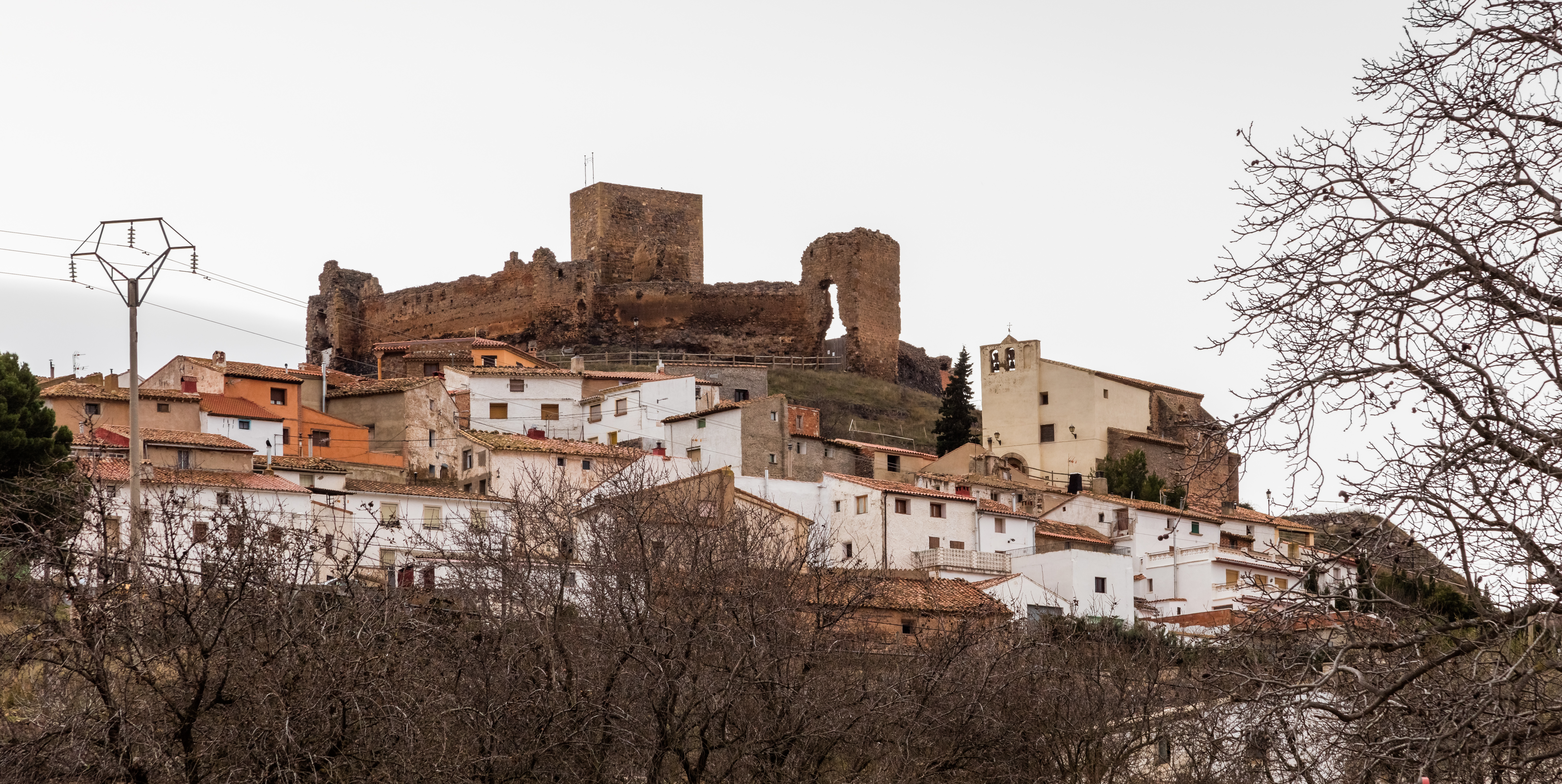 Trasmoz, Zaragoza, Spain